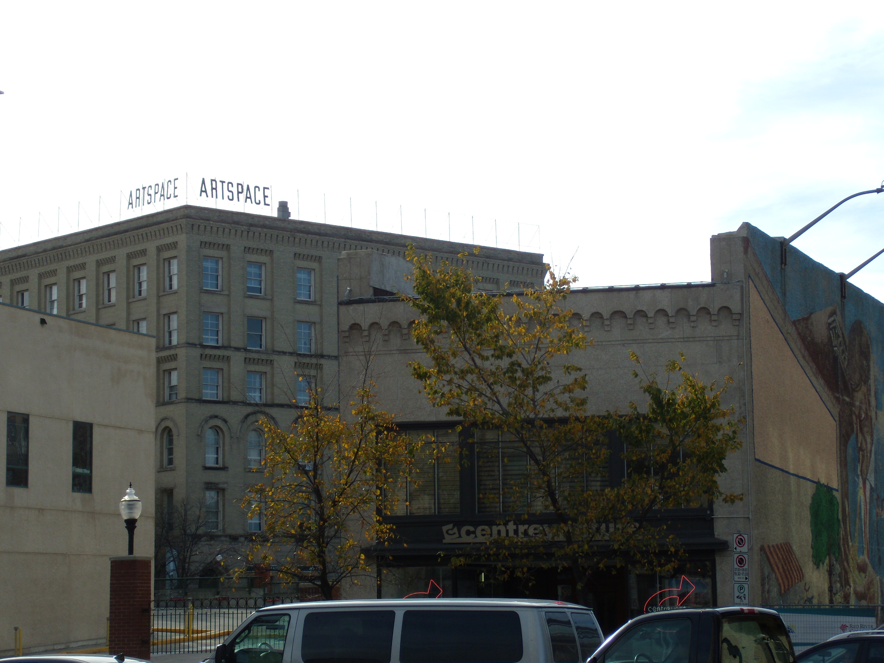 CentreVenture building on Main St with the Artspace building in the background, in Winnipeg Manitoba